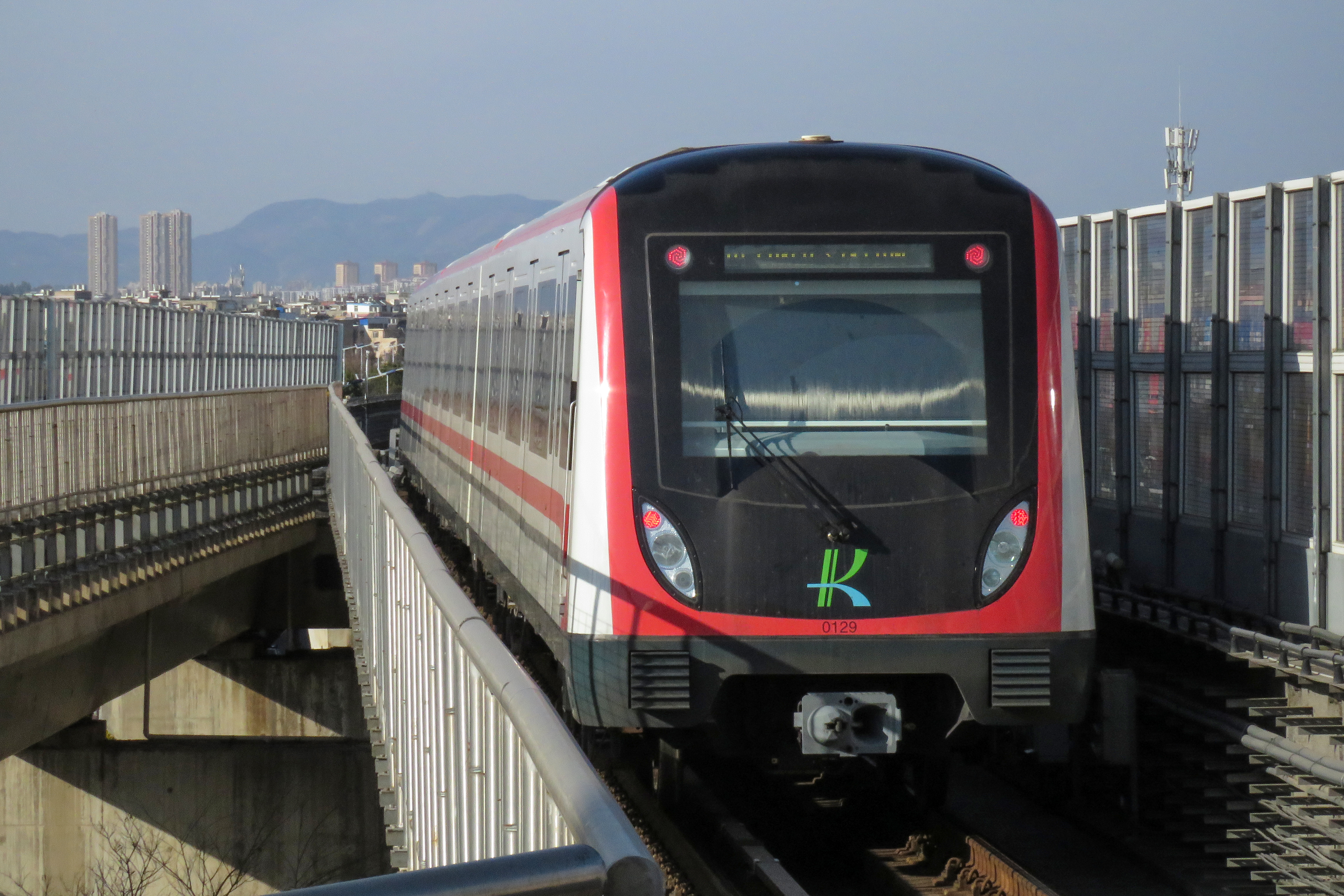 Surprised for this elevated station.